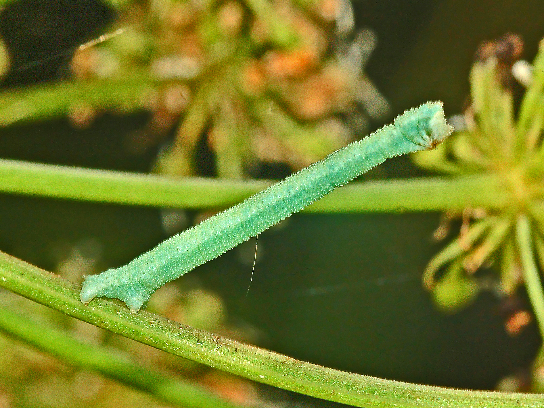 Caterpillar of "Phaiogramma etruscaria" in Genova, Italy